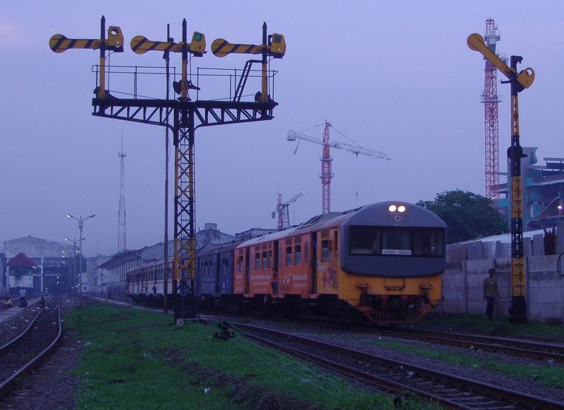 Diesel multiple unit of Delta Express from Indonesia